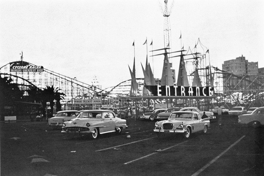 View of the entrance of "The Pike" amusement park in Long Beach, California (USA), in 1960.